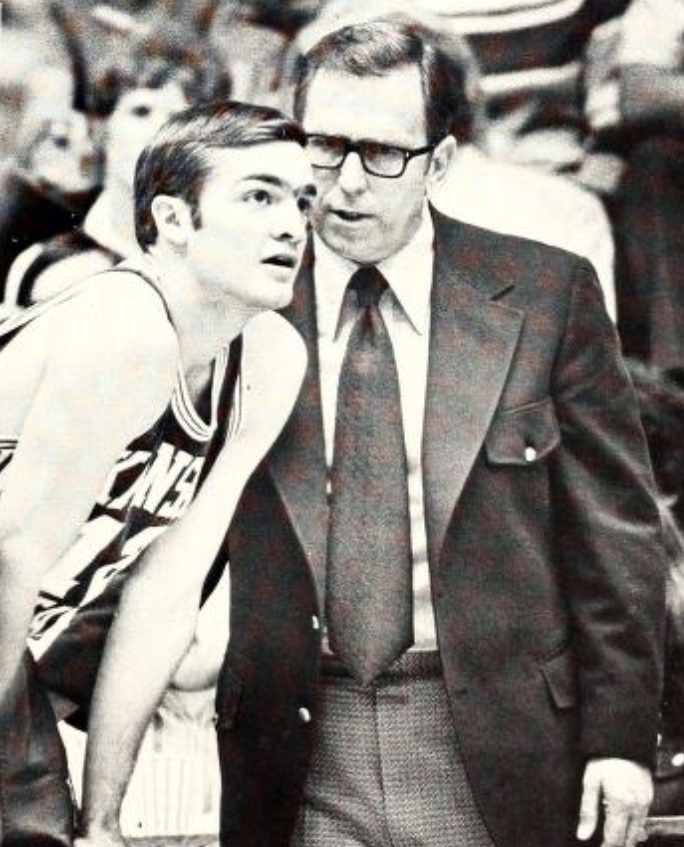 Kansas State player Lon Kruger and coach Jack Hartman From the 1972 Kansas State University student yearbook